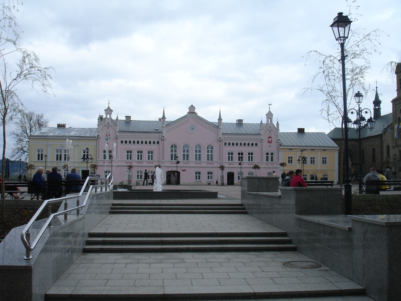 Sanok - old city hall